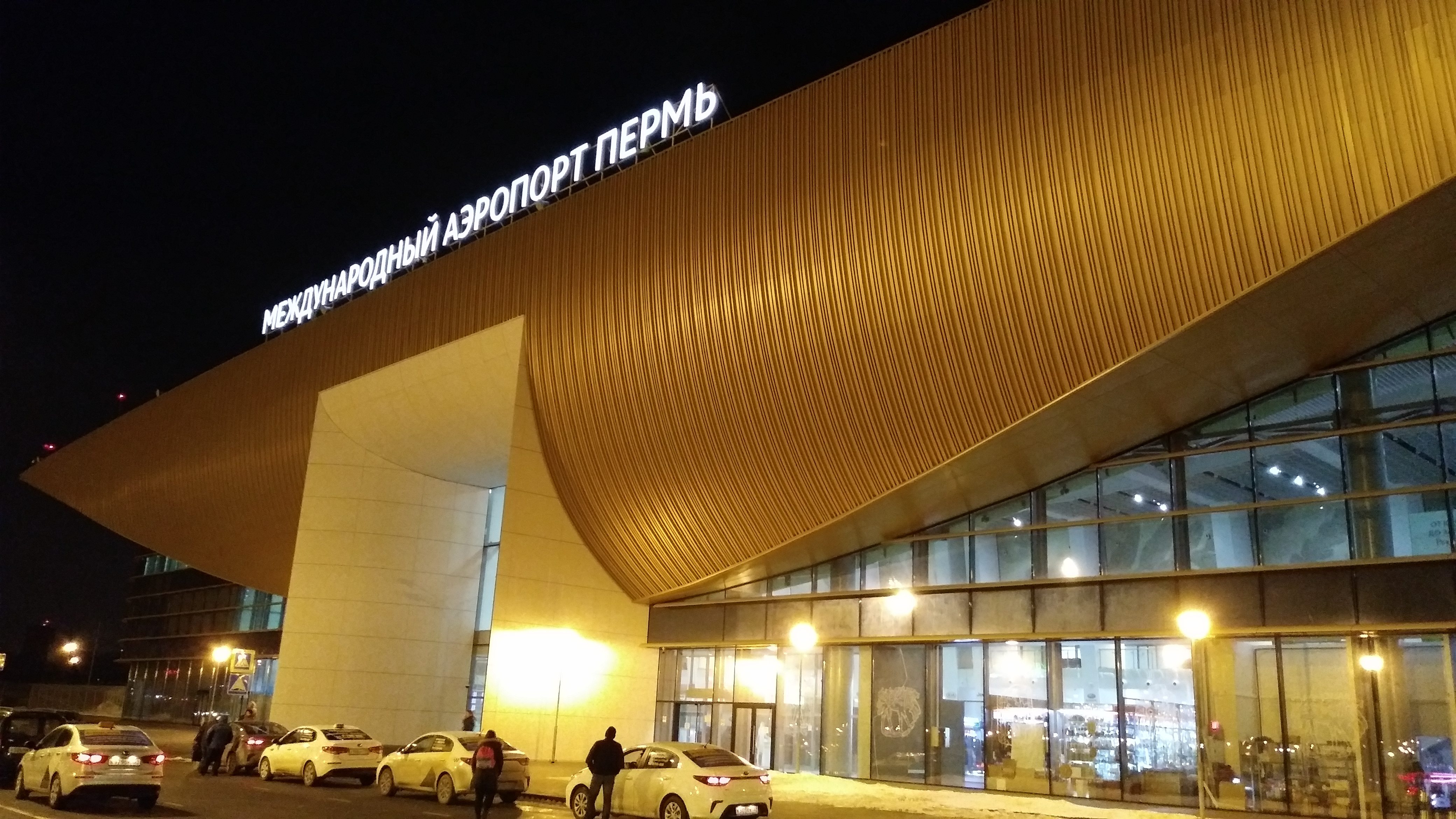 The new terminal of Perm International Airport.